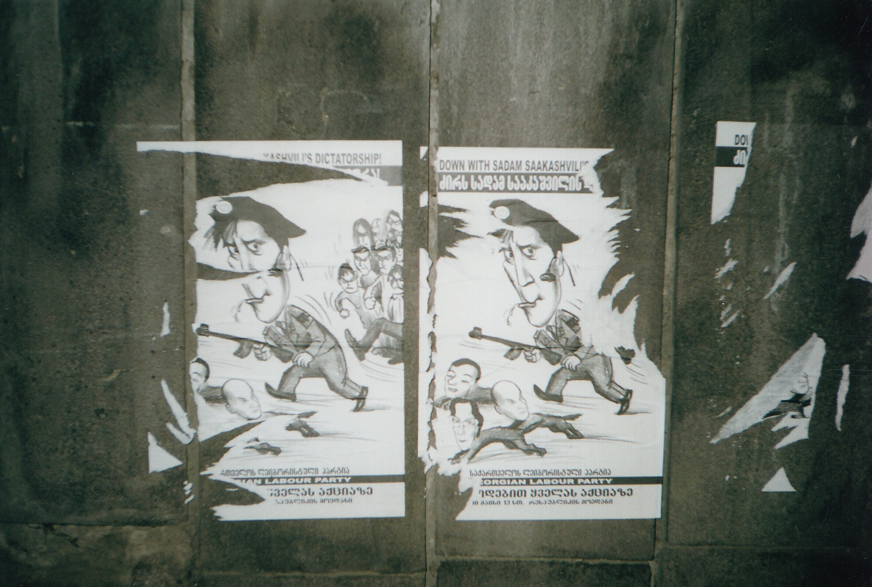 The Labour Party of Georgia's anti-Saakashvili poster in Tbilisi, calling for a rally in downtown Tbilisi in 2006.